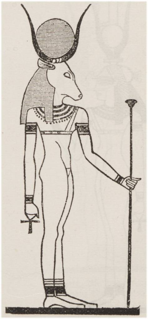 Goddess with the head of a cow, and a disk between her horns.